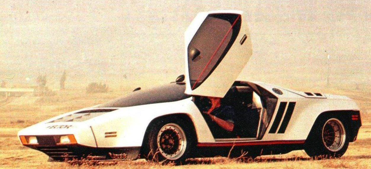 First Vector Prototype, shot in 1979 for Mr. Wiegert